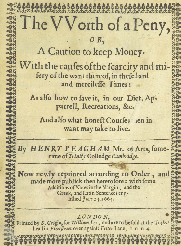 Page 0011 of The Worth of a Peny: or a caution to keep money.